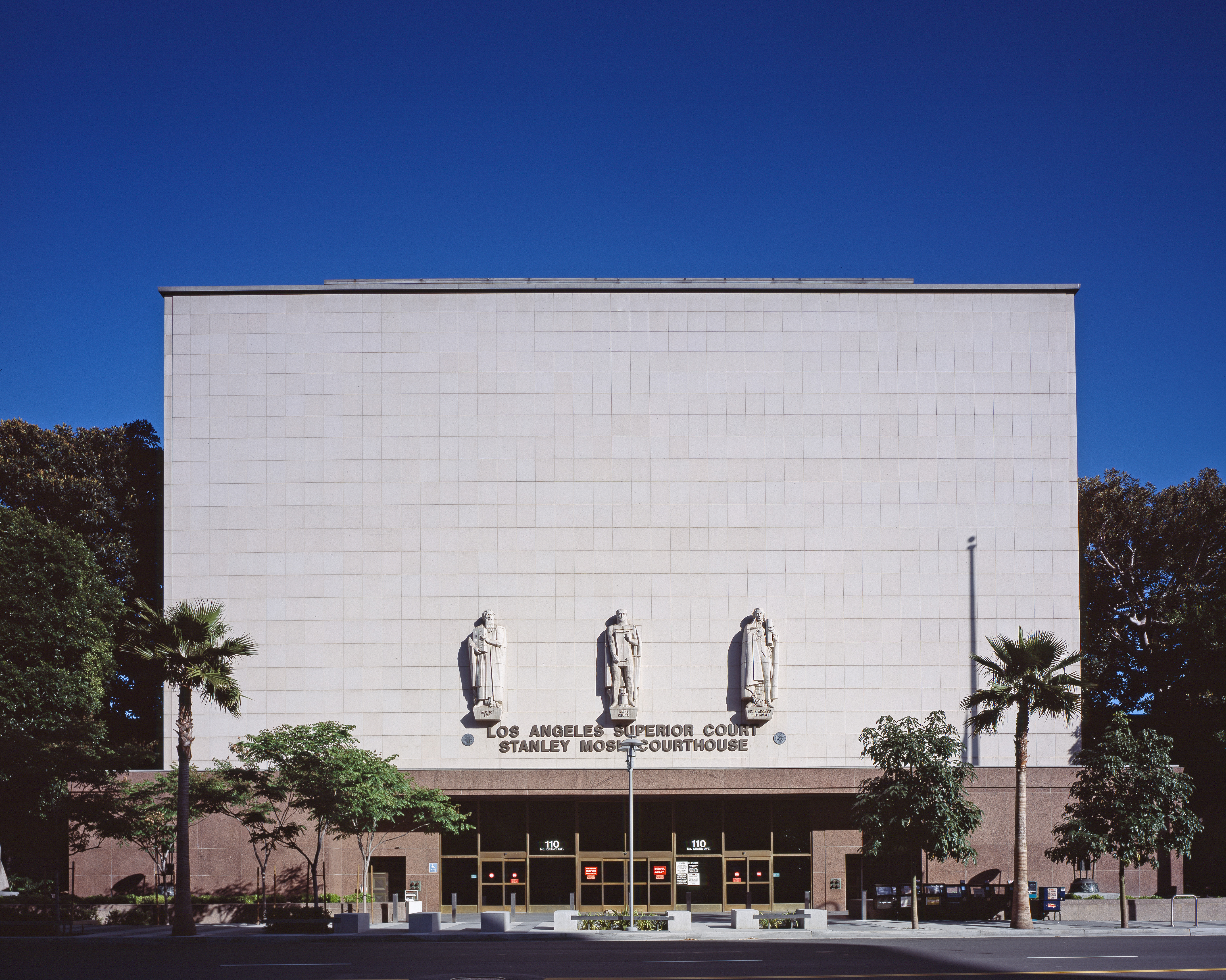 The Stanley Mosk Courthouse — the Grand Avenue entrance facade with bas-relief statues, in the Civic Center, Downtown Los Angeles, California. Renowned architect Paul R. Williams lead the Late Moderne style building's design team, that was completed in 1958.